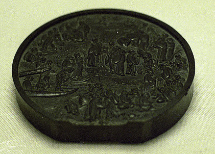 Inkcake, One hundred oldmen, maker: Wu-shin-Po, late Ming dynasty, China, Tokyo National Museum, Tokyo